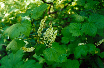 Ribes hudsonianum, Clearwater National Forest, USA